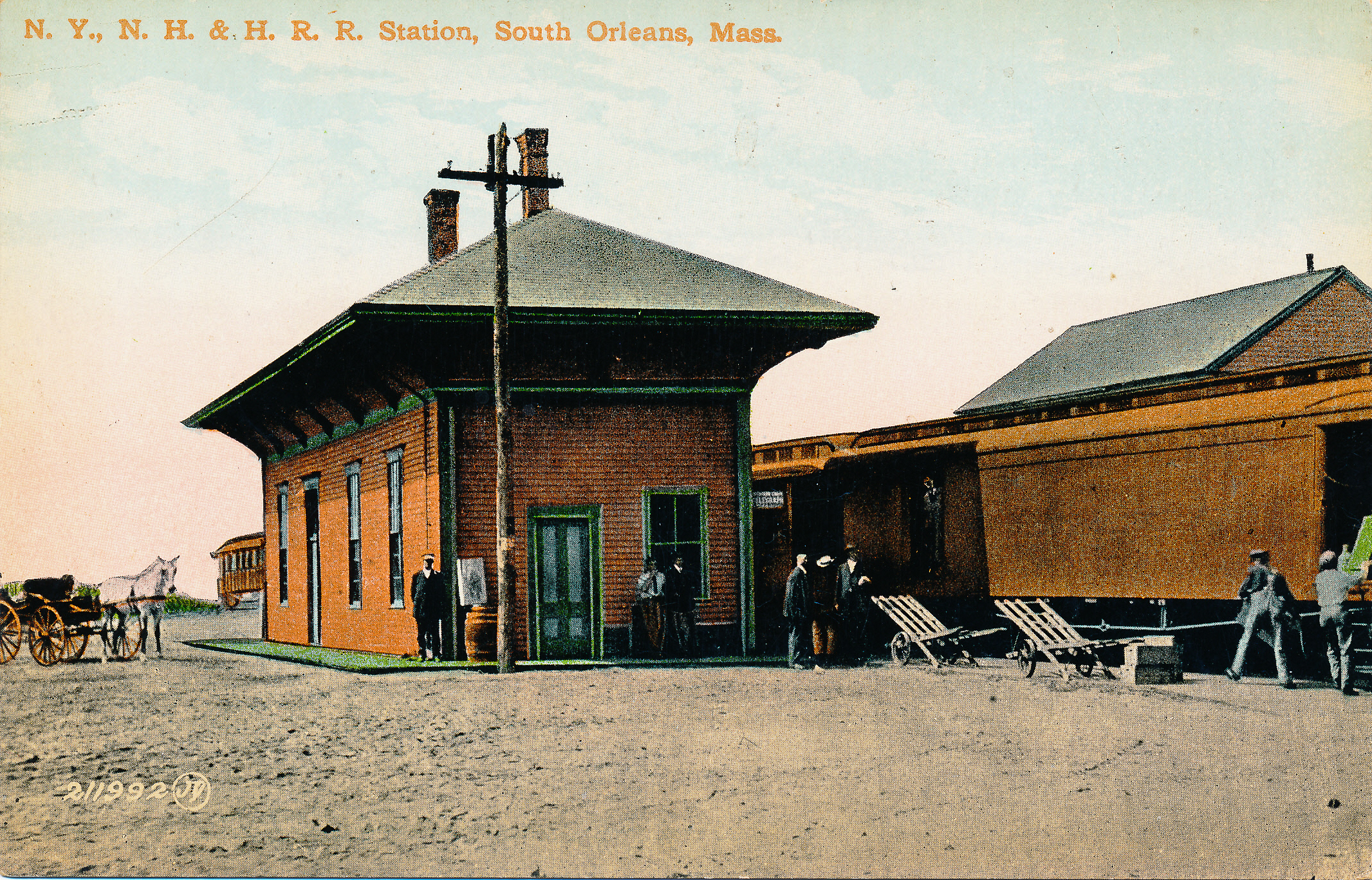 An early postcard showing the former Orleans, Massachusetts train station.